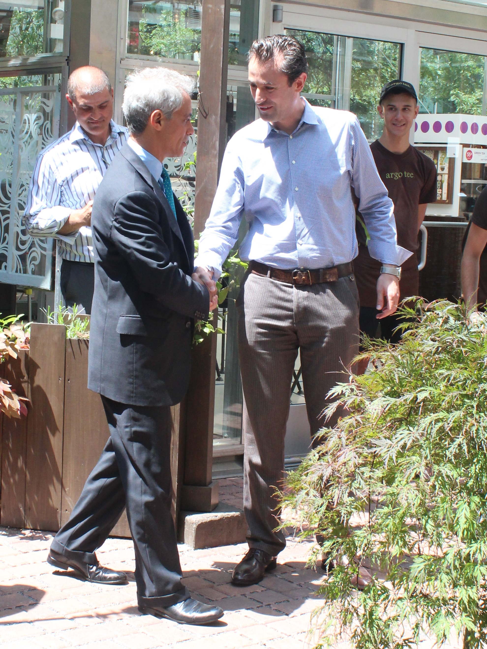 Argo Tea tenth anniversary tree planting ceremony with Chicago Mayor Rahm Emanuel and Argo Founder Arsen Avakian.